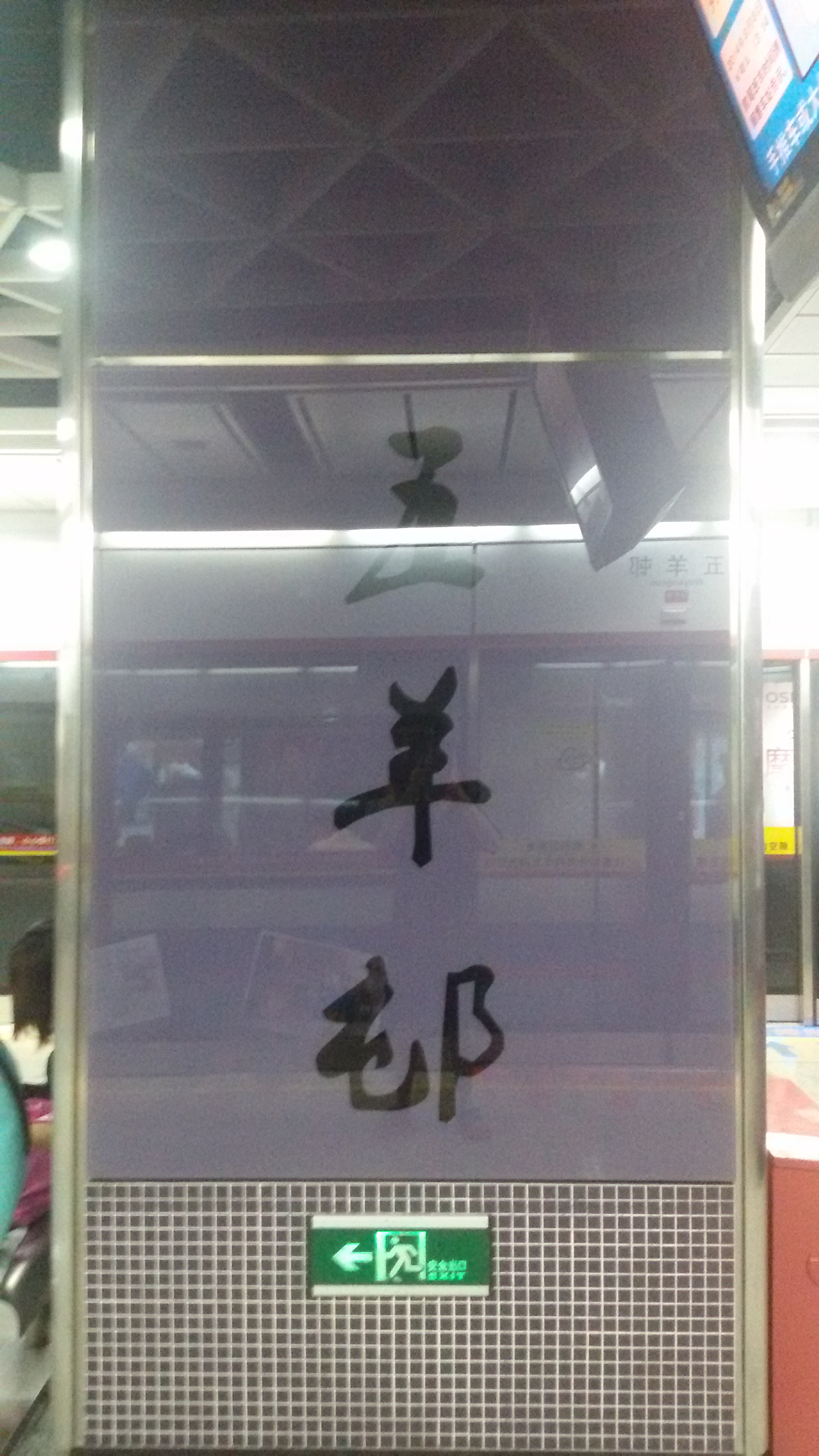 WORD on PILLAR for Wuyangcun Station in Line 5, Guangzhou Metro. 粵語: 五羊邨站入面，5號綫嘅柱上邊啲字。